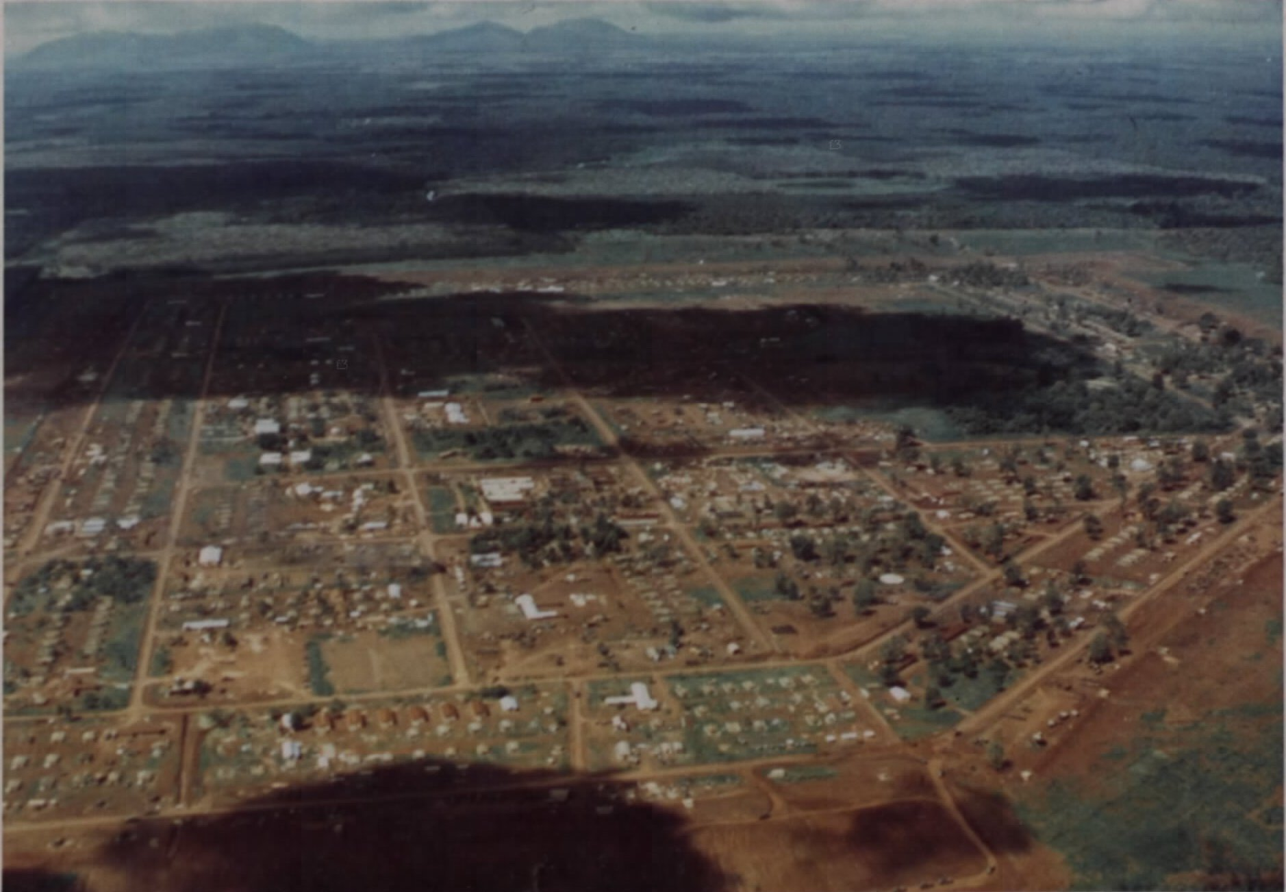 Aerial view of the cantonment of the 11th Armored Cavalry Regiment, near Xuan Loc, known as Blackhorse Base Camp.